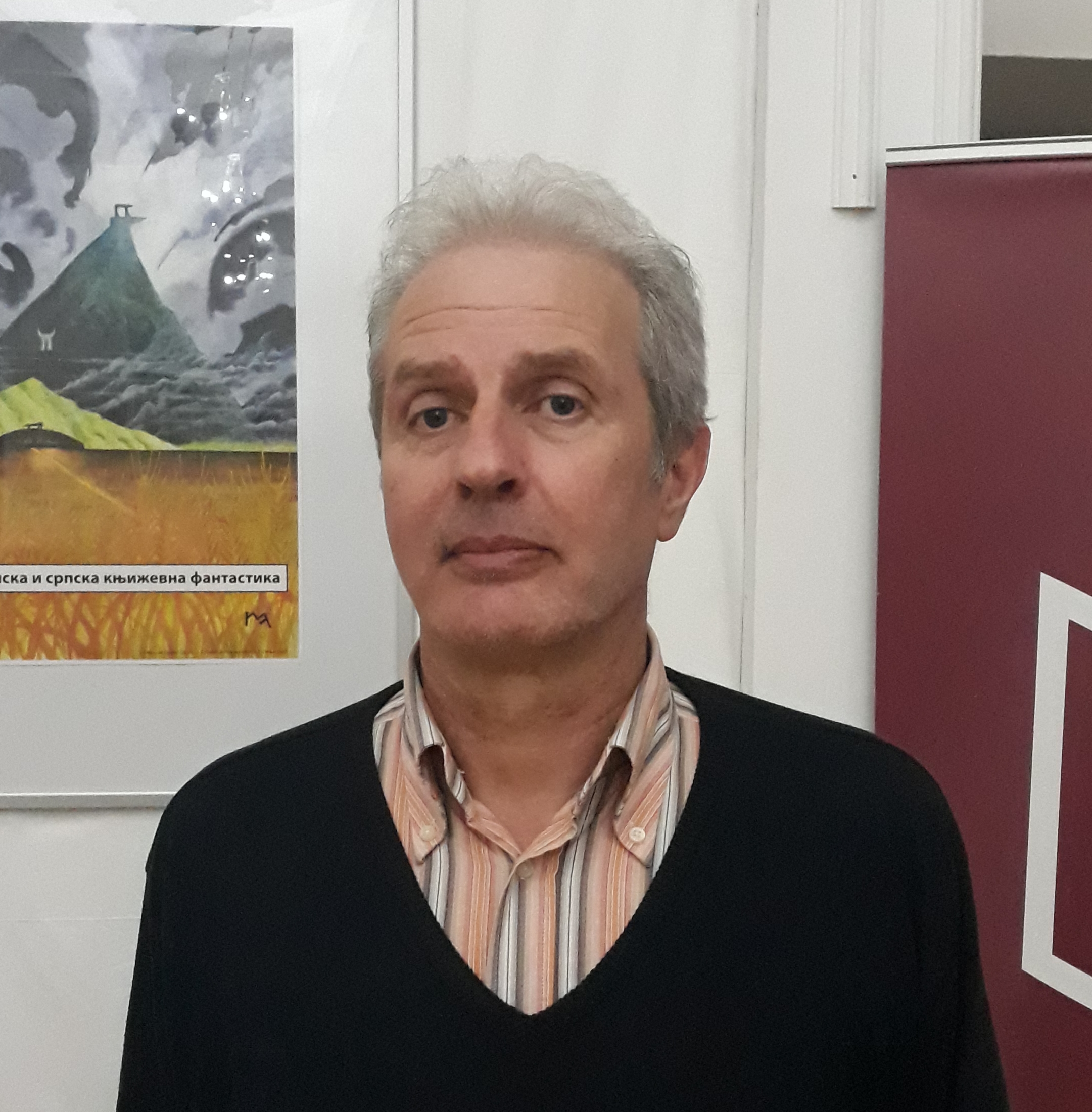 Ivan Srdanovic, Serbian writer Srpski (latinica): Ivan Srdanović, srpski pisac fantastike.